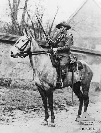 PORTRAIT OF 3109 TROOPER ALEXANDER GIBSON FORSYTH, 4TH LIGHT HORSE, DIED (PNEUMONIA) 1917-04-02.